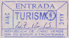 Cape verde entry stamp